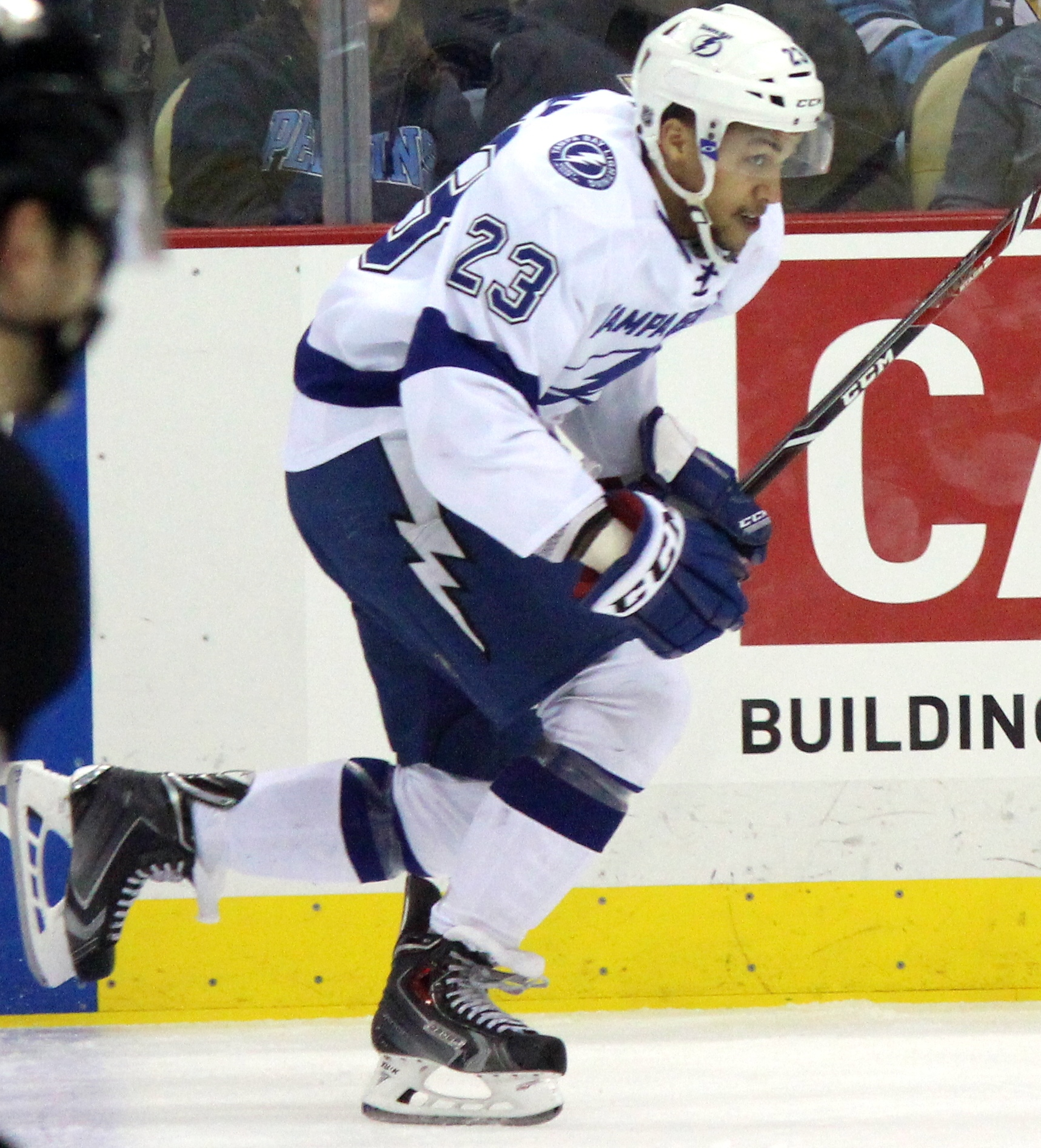 Tampa Bay Lightning forward J.T. Brown during a game against the Pittsburgh Penguins, March 22, 2014, at Consol Energy Center in Pittsburgh, PA.